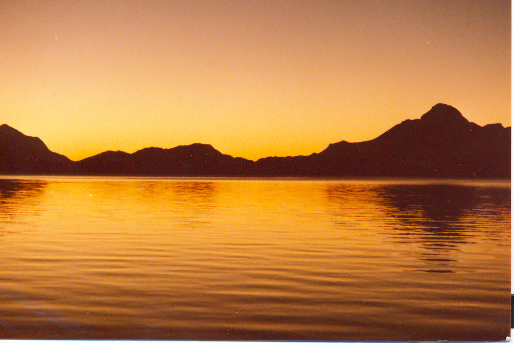 Midnight Sun in Itivdleq Fjord north of Sondre Strom Fjord in Greenland Photo by Jan Kronsell